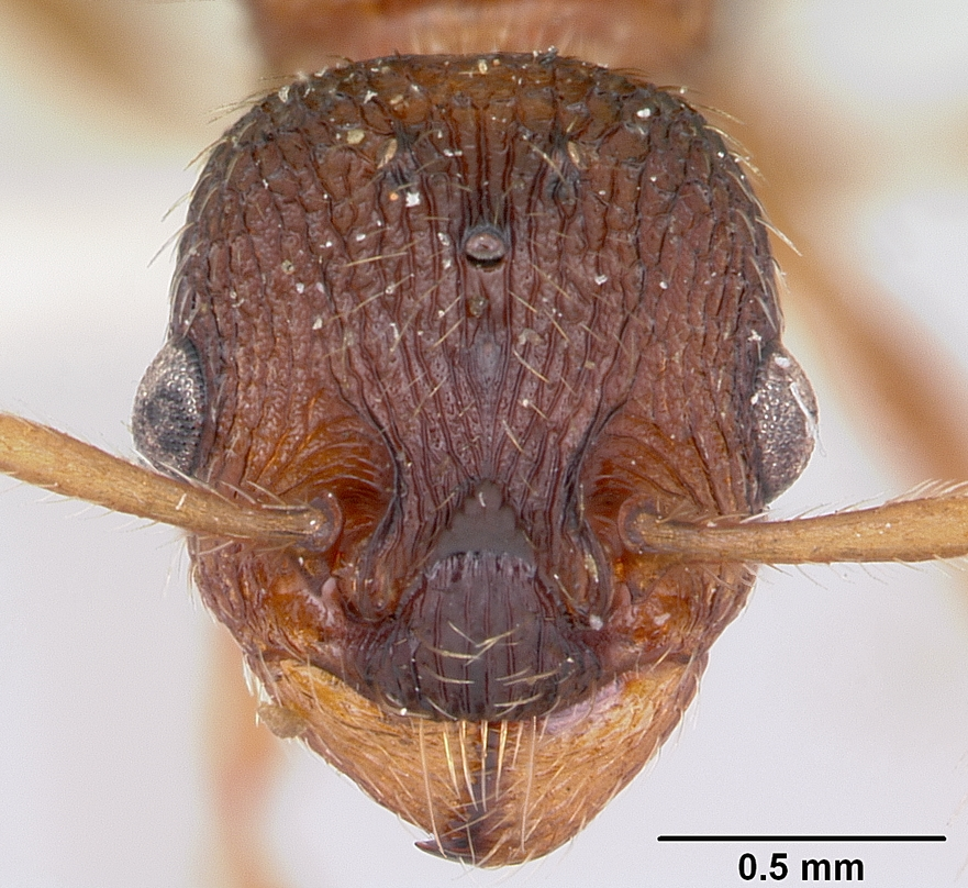 Head view of ant Myrmica lobicornis specimen casent0103401.